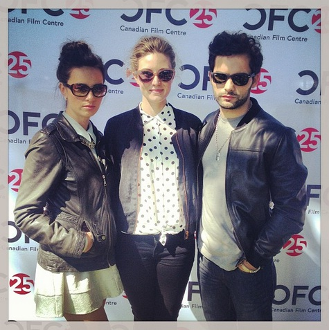 The 2013 CFC Annual BBQ celebrated CFC's work at the 2013 Toronto International Film Festival and its 25th Anniversary. Hosted by Norman Jewison during the Toronto International Film Festival (TIFF), the CFC Annual BBQ is held in celebration of the independent creative spirit. As one of the most sought after tickets on the TIFF party circuit, this exclusive invitation-only event takes place at Windfields, home of the CFC. In this informal, outdoor setting, guests are treated to food from some of Toronto’s finest restaurants and catering companies, in addition to enjoying selected wine, beer and spirits. Photo from Johnathan Sousa off Instagram